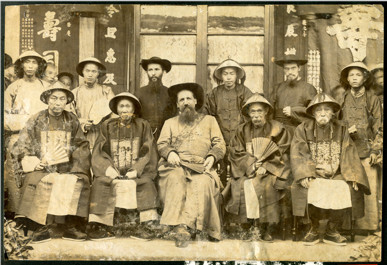 (Rough translation via Google Translate): the photo in the front row from left to right order of: Yongjia magistrate Qin average Wenzhou Chief General Liu Xiangsheng middle of France Zhaobao Lu and temperature at the Road, Tong Zhaorong Wenzhou prefect Wang Chen